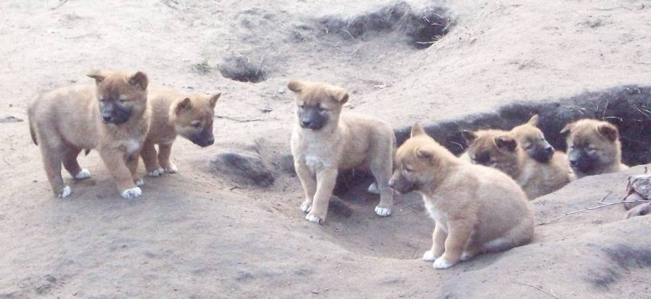 dingopups in Berlin